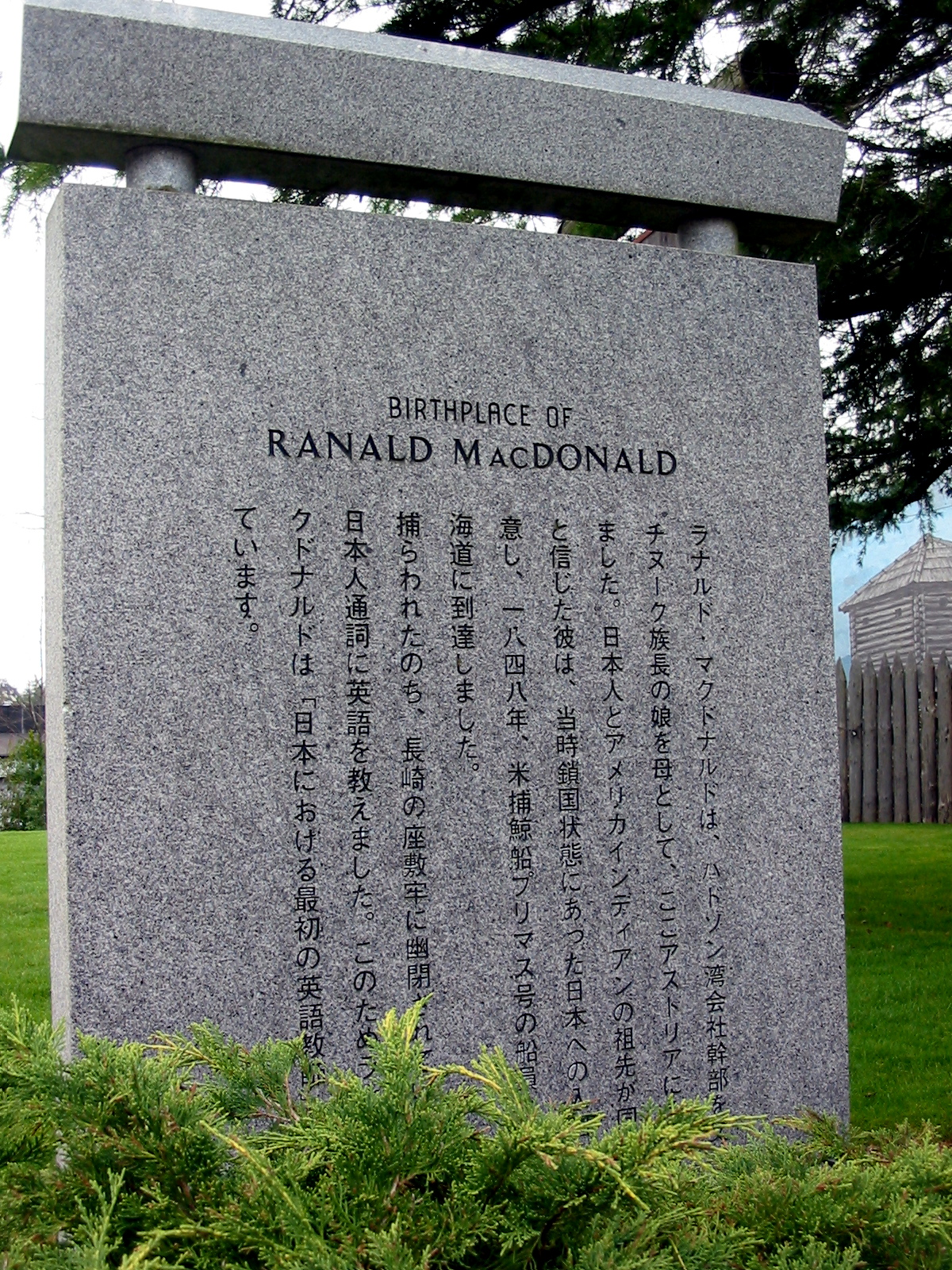 The Ranald MacDonald memorial stone in Astoria, OR.